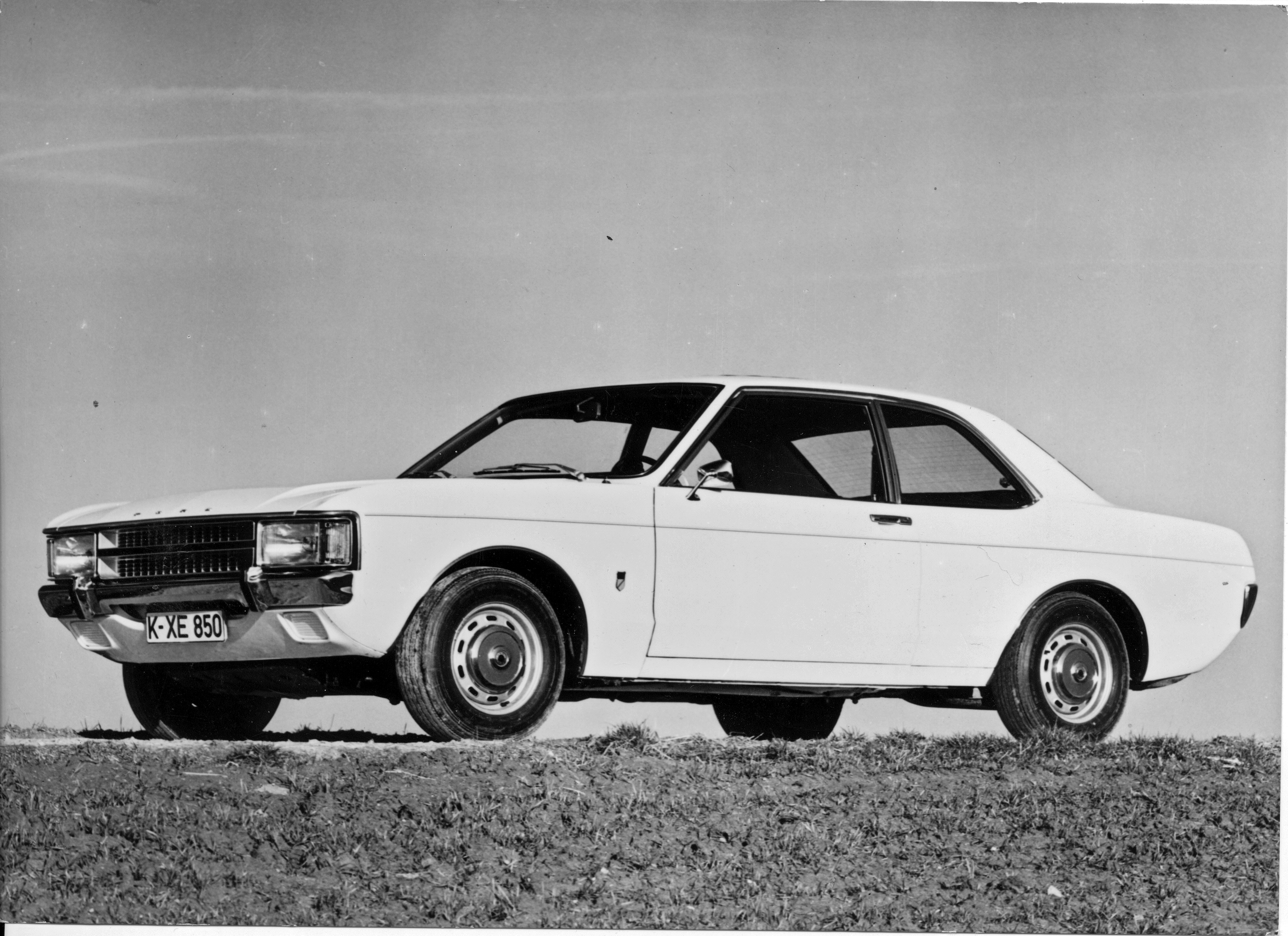 1973 Ford Consul L "Classic"